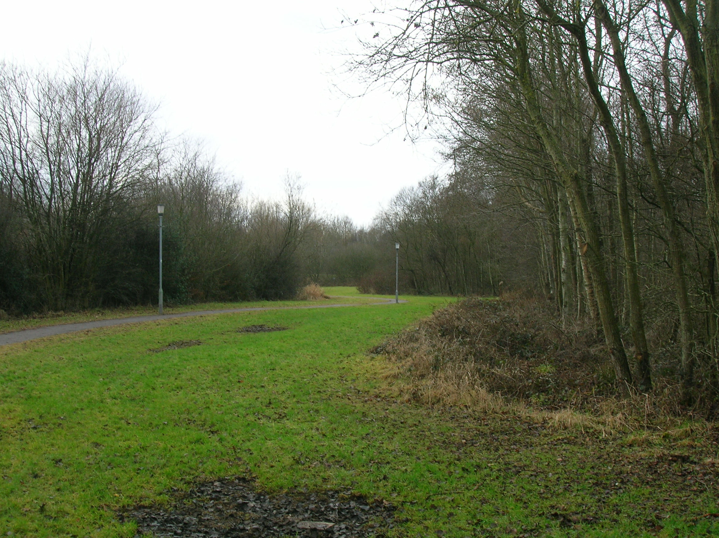 The site of Littlestane Loch near Littlestane Farm, Irvine, North Ayrshire, Scotland.